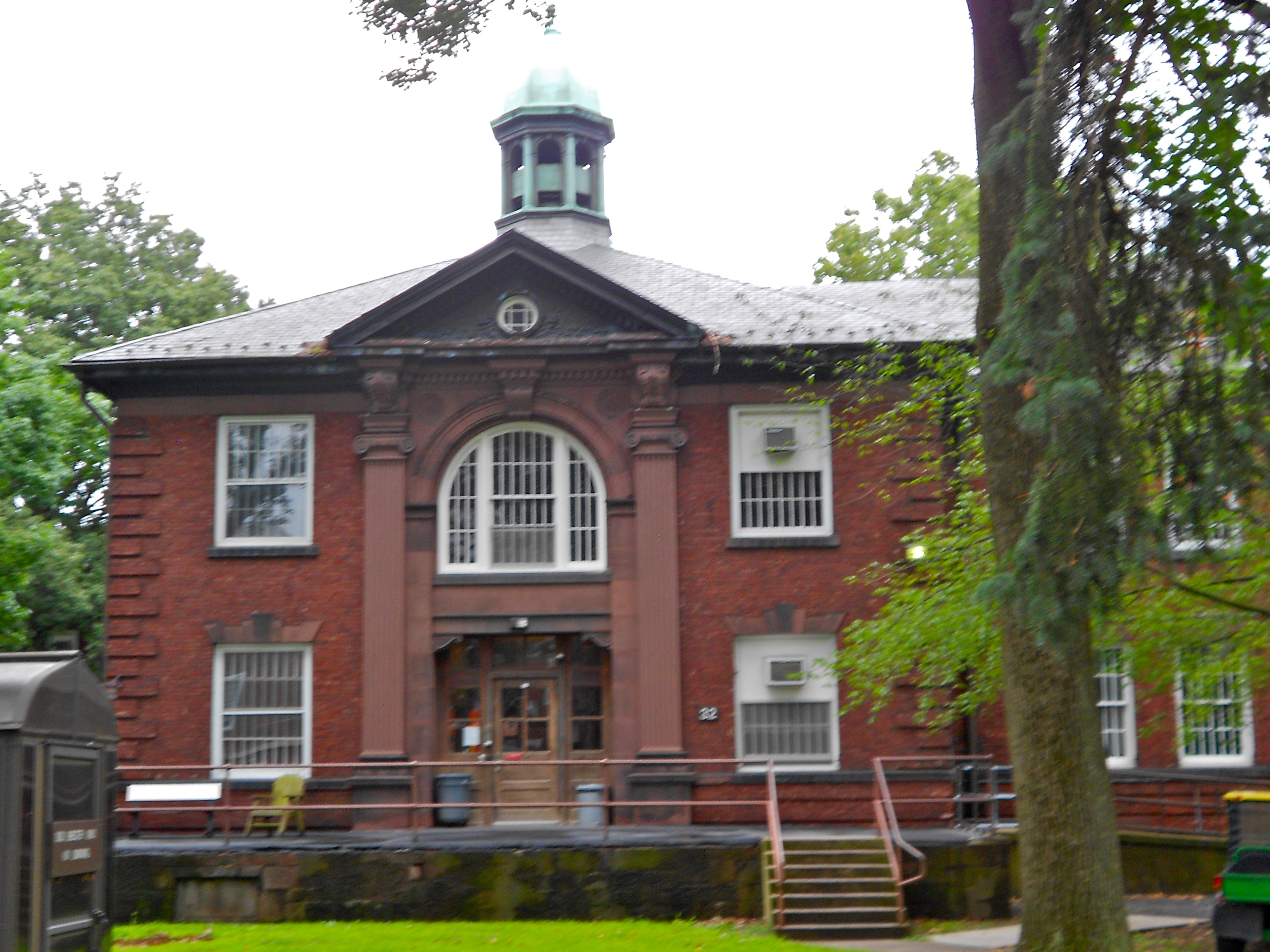 The Beechmont building, the former Pennsylvania State Lunatic Hospital — located off Cameron Street in Harrisburg, Dauphin County, Pennsylvania. Listed on the NRHP on January 8, 1986.